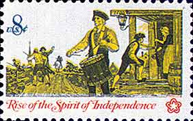 United States postage stamps, Scott 1479